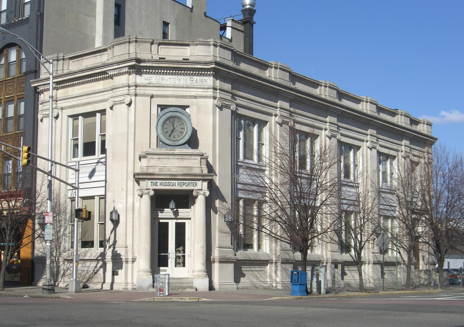 The Hudson Reporter building on 14th Street in Hoboken, New Jersey. Photo by Luigi Novi. This photo may be used for any purpose, provided that the photographer is visibly credited in each instance where it is used. For further information on the Licensing requirements (See Licensing information below), contact me at here.